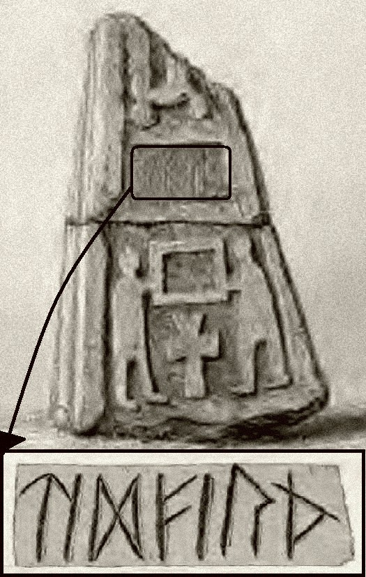 19th century engraving of a possibly early 9th century cross-slab from the cemetery of Wearmouth, County Durham (now Tyne and Wear). The central inscription, forming a separate engraving in the original illustration, has been amplified and appended to the bottom by uploader.